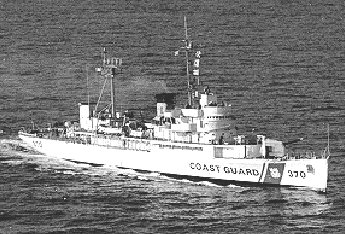 United States Coast Guard cutter USCGC Casco (WHEC-370,ex-WAVP-370)